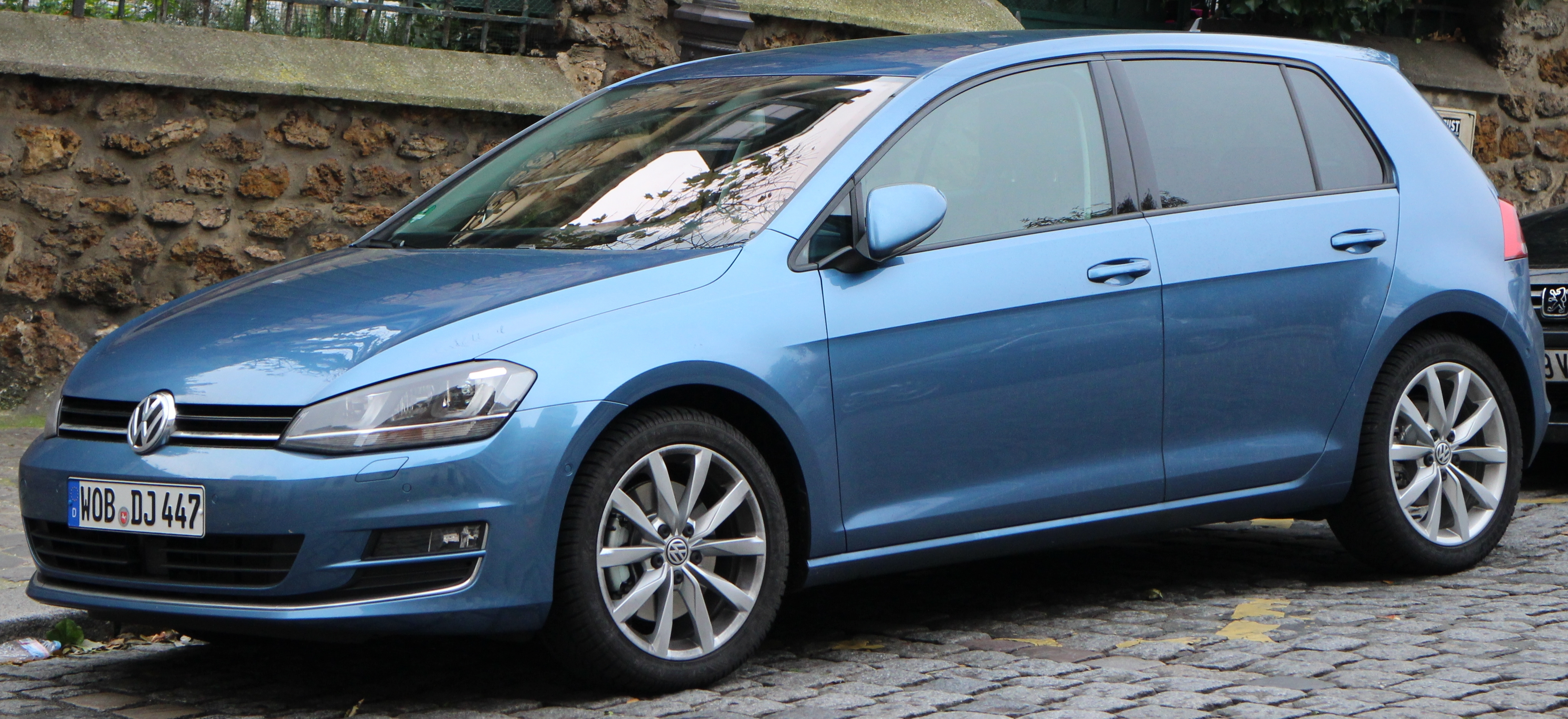 VW Golf 7 Blue